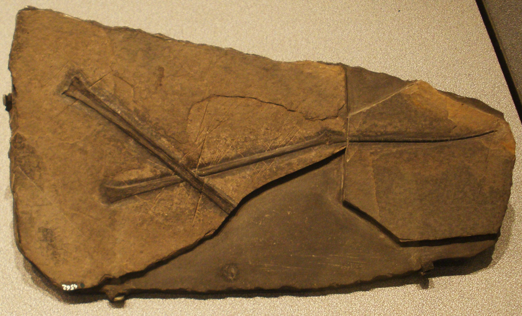 Fossil of Lcf Preondactylus, an extinct reptile